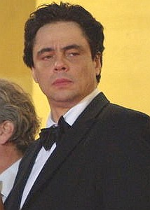 Del Toro at Cannes 2008